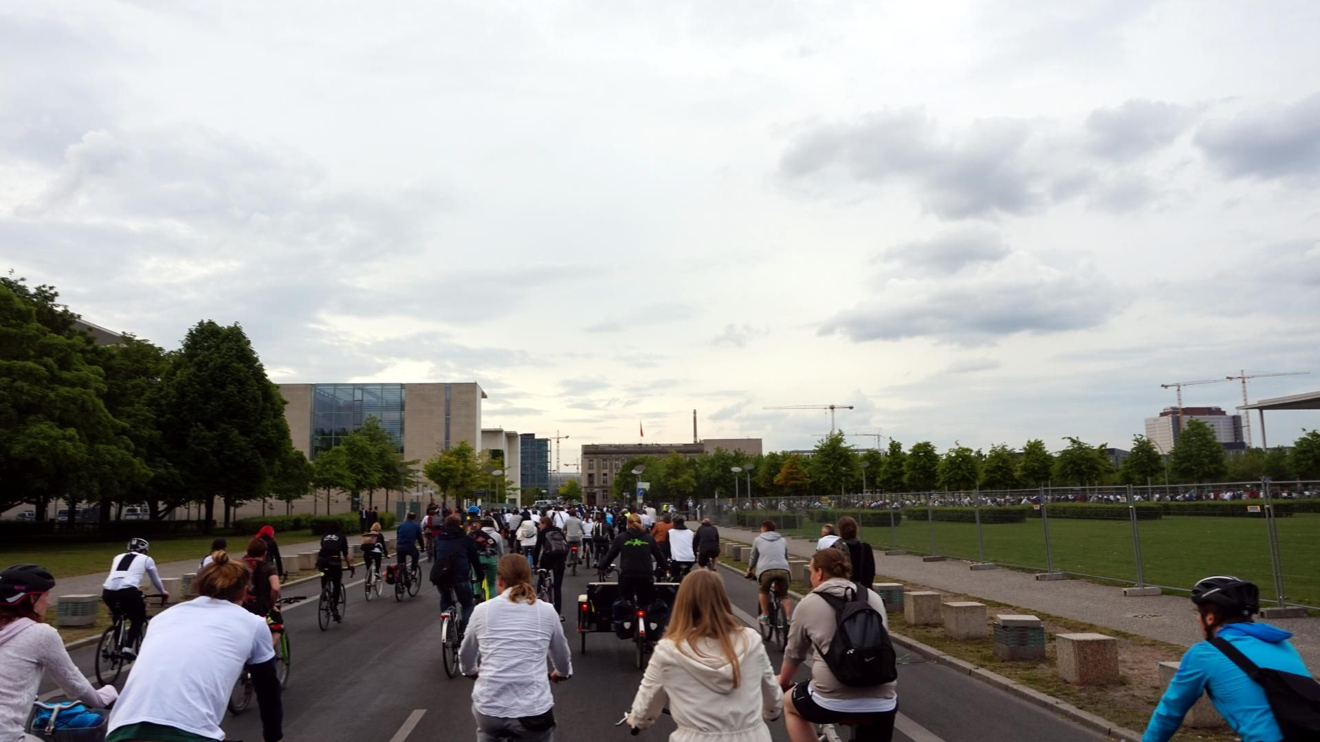 Ride of Silence, Berlin 2015, cyclists pass Kanzleramt und Reichstag